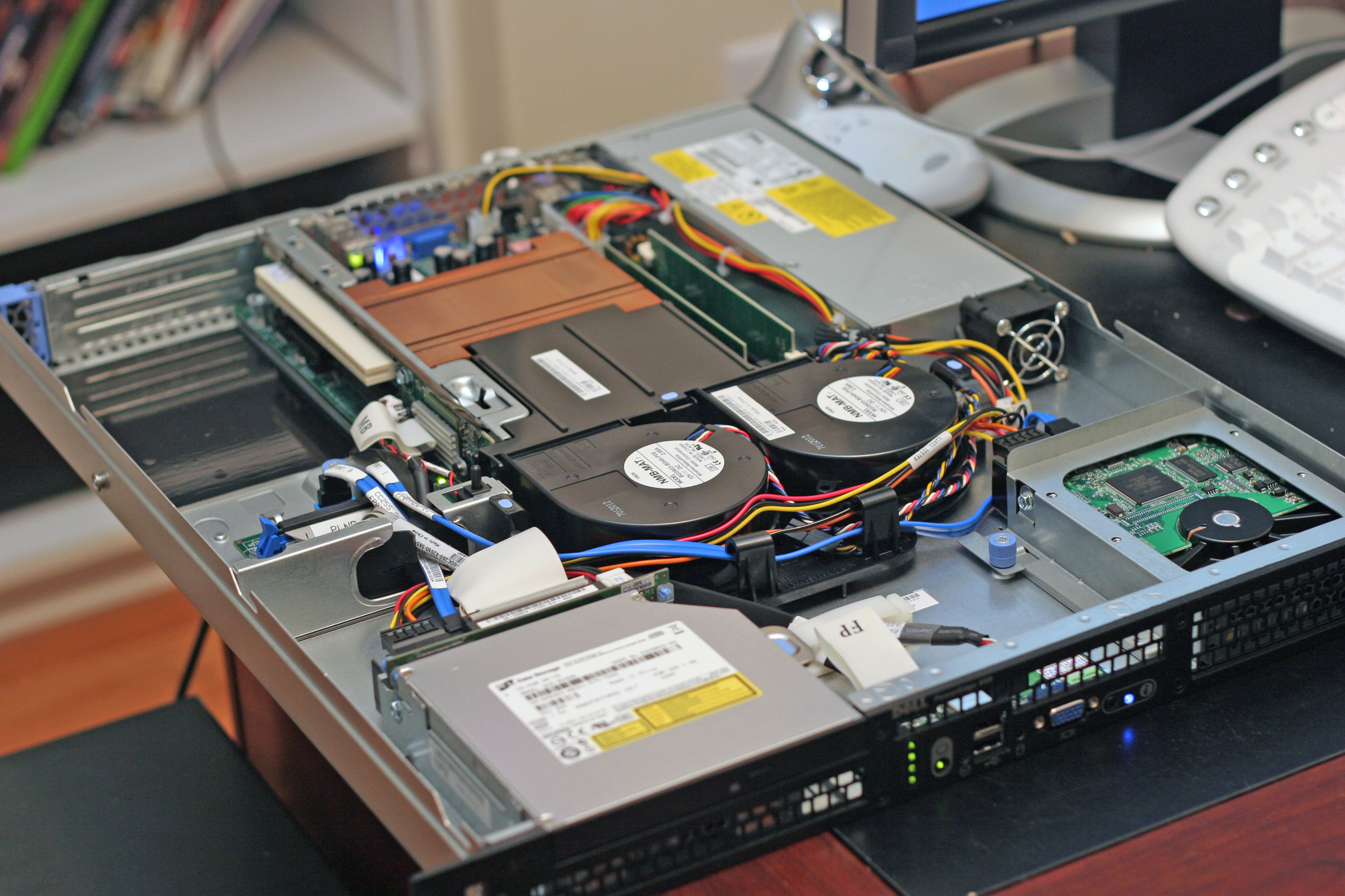 A picture of a Dell PowerEdge 850 web server. The image may be used so long as the author is cited. –Rodzilla 03:50, 29 December 2006 (UTC)